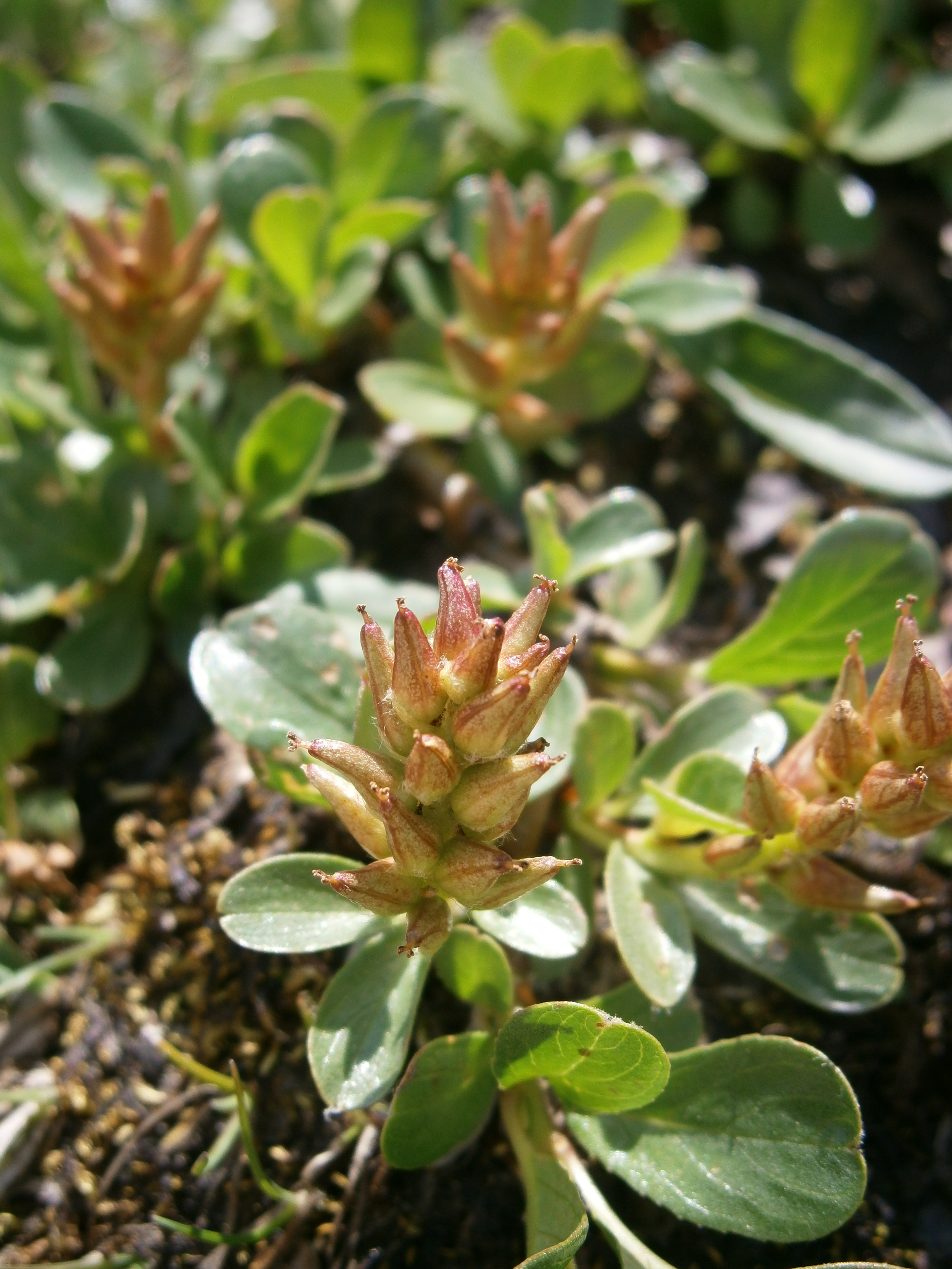 Salix retusa